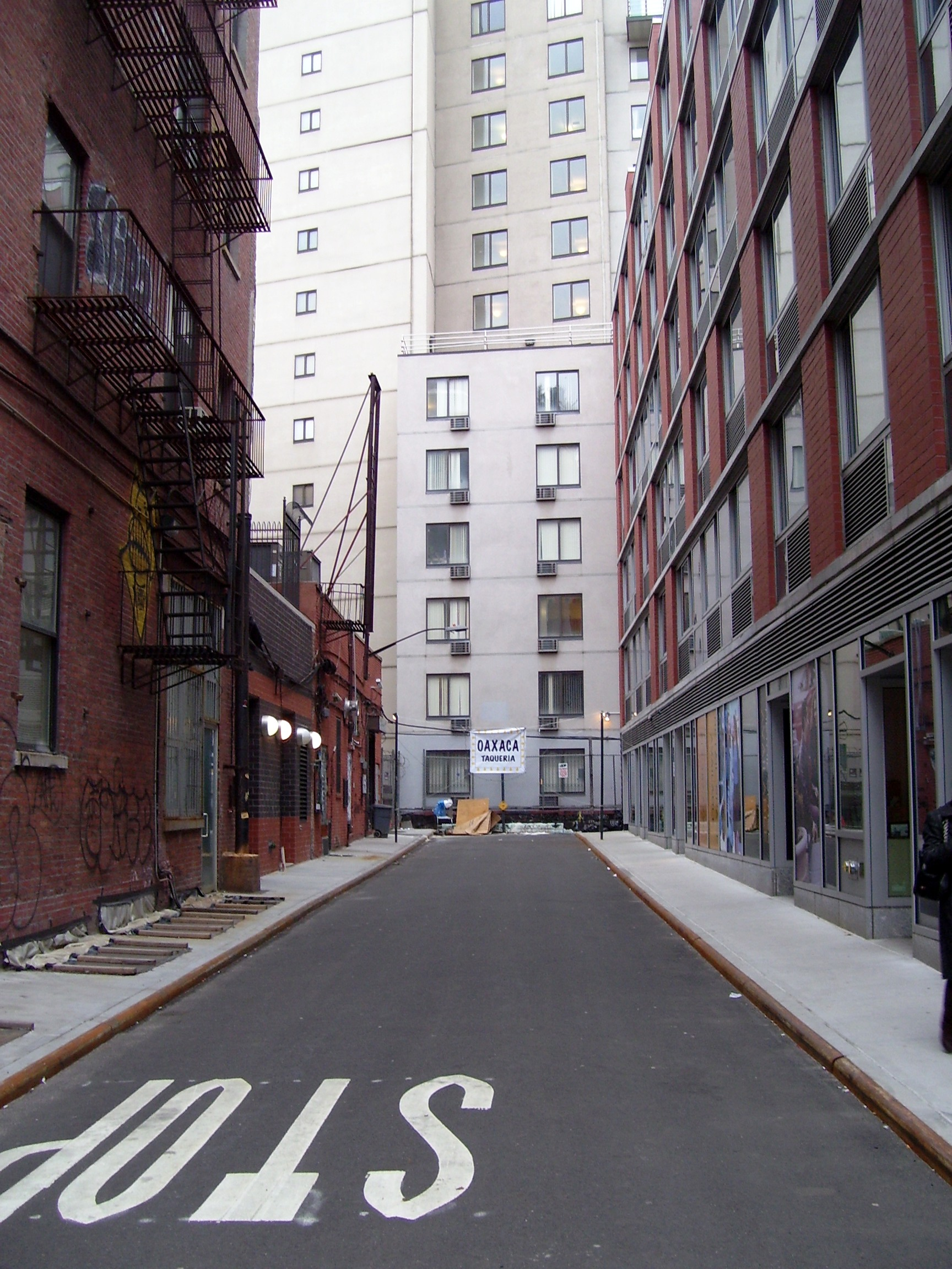 "Extra Place" is an official and signed NYC street which runs for less than a block north of East 1st Street between Second Avenue and the Bowery in Manhattan, New York City. The street's southern half has been integrated into the Avalon Bowery Place buildings. The street's name derives from being the "extra" parcel left over when Philip Minthorne's 110-acre farm was divided up between his 9 children in 1802. Plans have been announced to develop Extra Place as a pedestrian mall. (Sources: The Street Book, NYC GIS map, "Avalon Bowery Place")